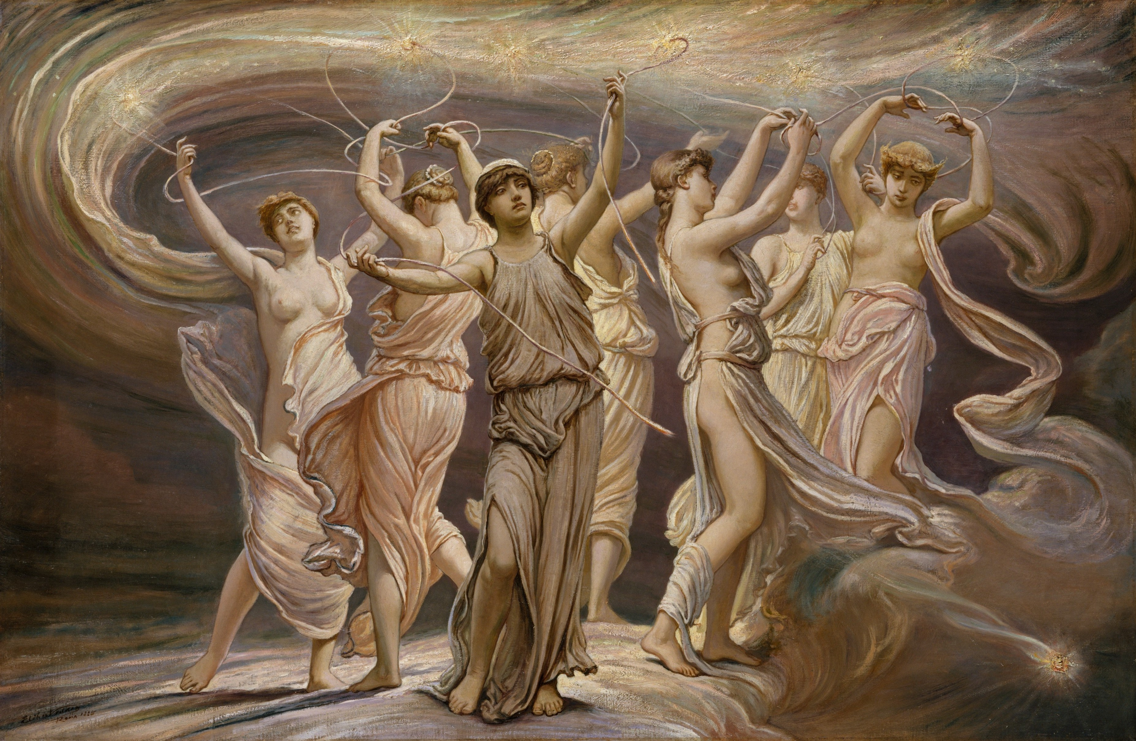 The Pleiades